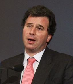 Oliver Letwin, United Kingdom Conservative Party MP.